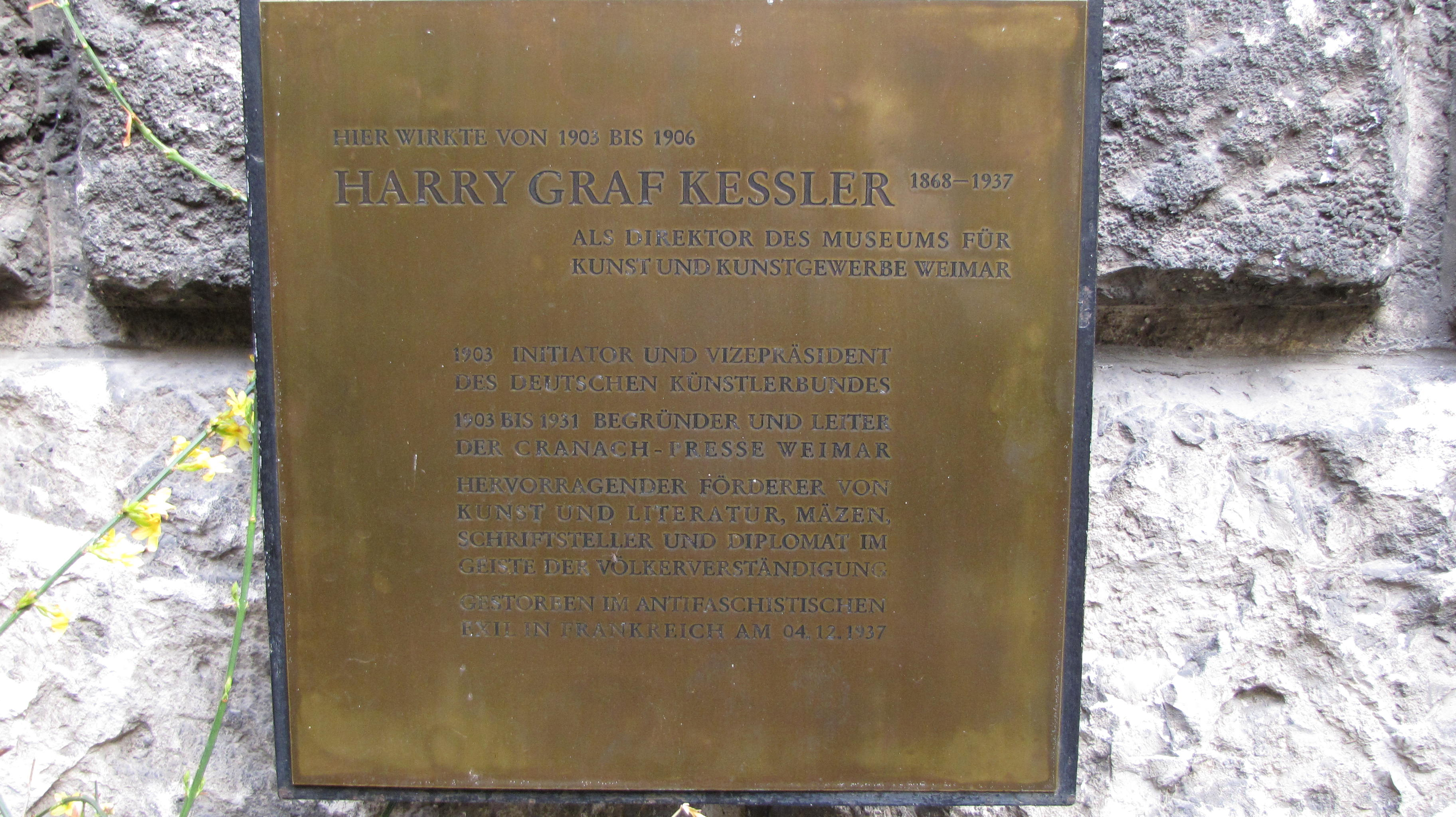 Kunsthalle "Harry Graf Kessler" in Weimar, Memorial Plaque for Harry Graf Kessler